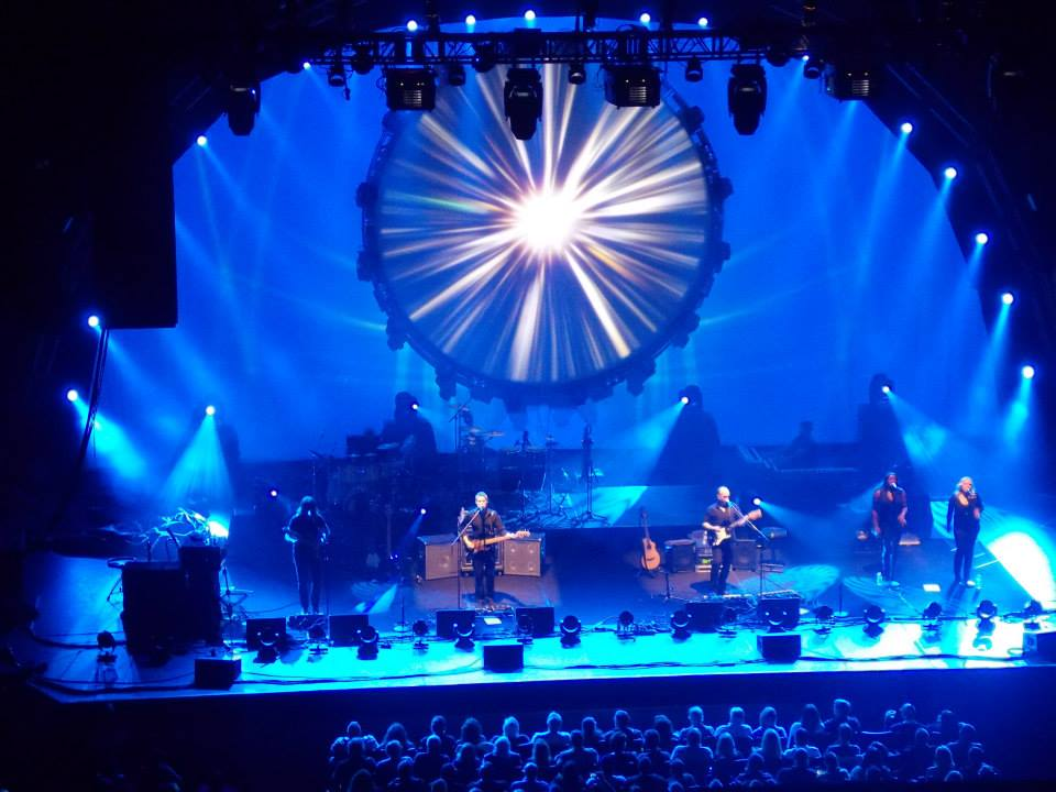 Brit Floyd performing in 2014, Wallingford, CT